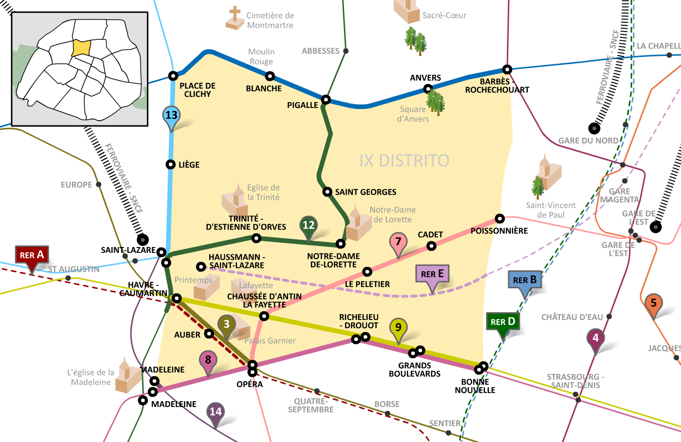 Paris 9th district (France), metro (subway) lines and RER. In spanish